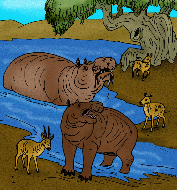 My drawings of the two subspecies of Cretan Dwarf Hippopotamus, Hippopotamus cruetzburgi cruetzburgi (the larger), H. c. parvus (the smaller), and the Cretan Pygmy Deer, Candiacervus cretensis, from the Late Pleistocene of Crete. (C) Stanton F. Fink based off of reconstructions in (Anton, Mauricio, Jordan, Agusti, Mammoths, Sabertooths, and Hominids: 65 Million Years of Mammalian Evolution in Europe New York 2005 ISBN-13: 978-0231116411)